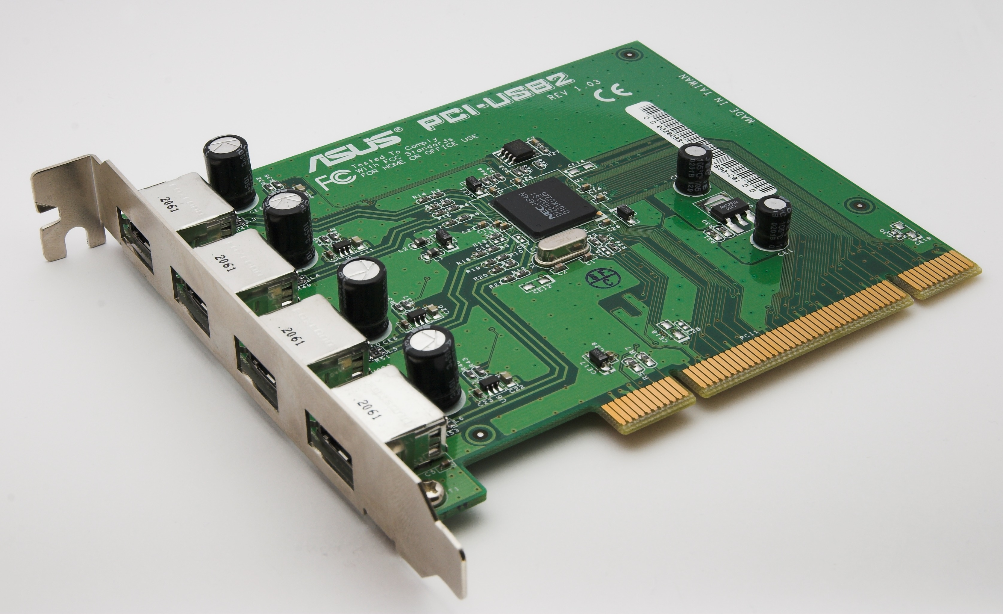 USB controller card with 4 external USB2.0 ports for use in a PCI slot